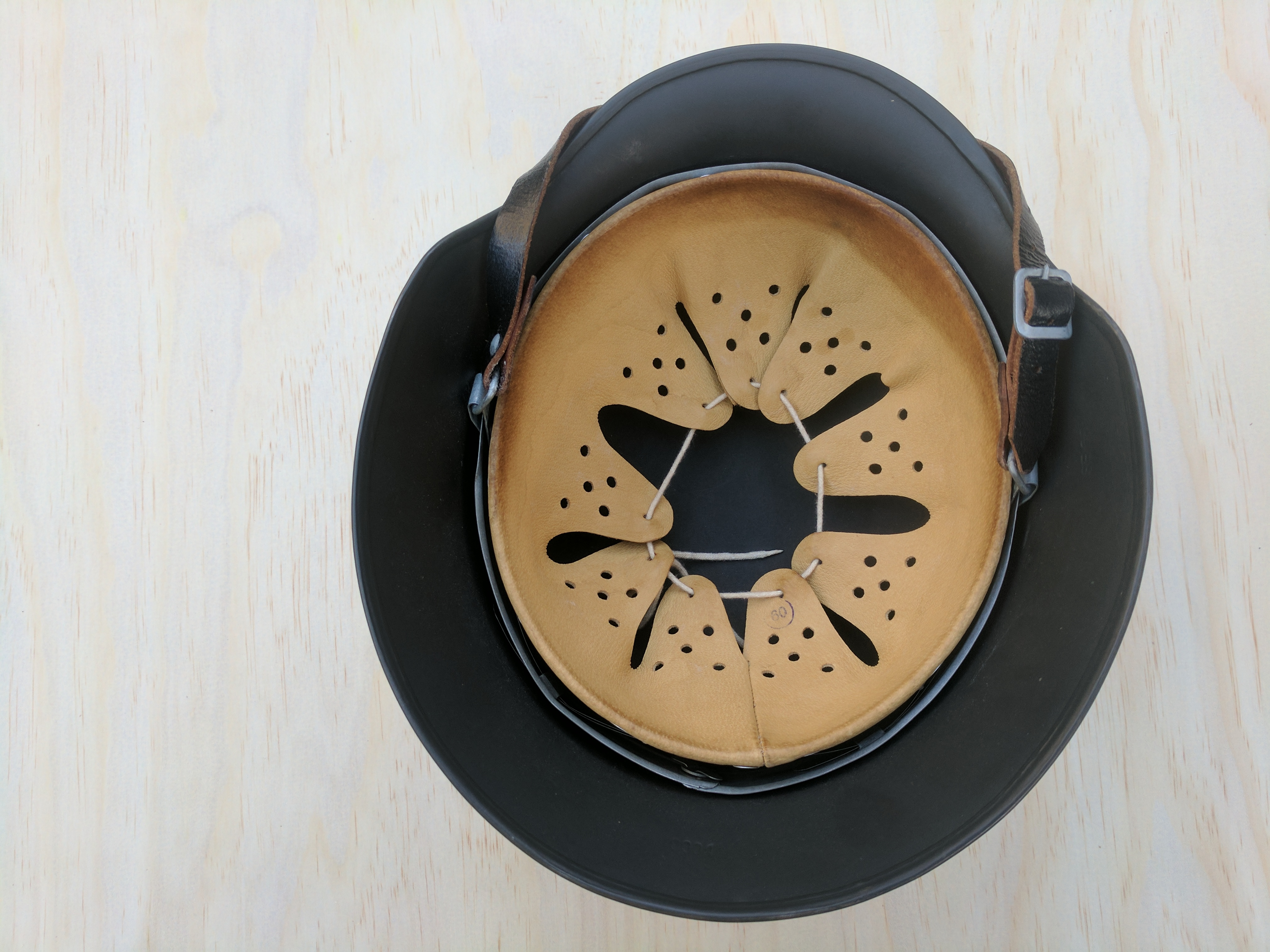 M35 helmet liner